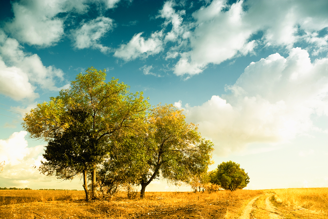 autumn, background, beauty, blue, branches, bright, canopy, carpet, clouds, colorful, colors, early, environment, fall, foliage, footpath, forest, frield, golden, grass, green, hike, hiking, landscape, leafs, leaves, nature, november, october, orange, outdoors, path, peaceful, perspective, prospect, red, road, scenery, scenic, seasons, silence, sky, stem, trails, trees, vegetation, vista, walking, woods, yellow